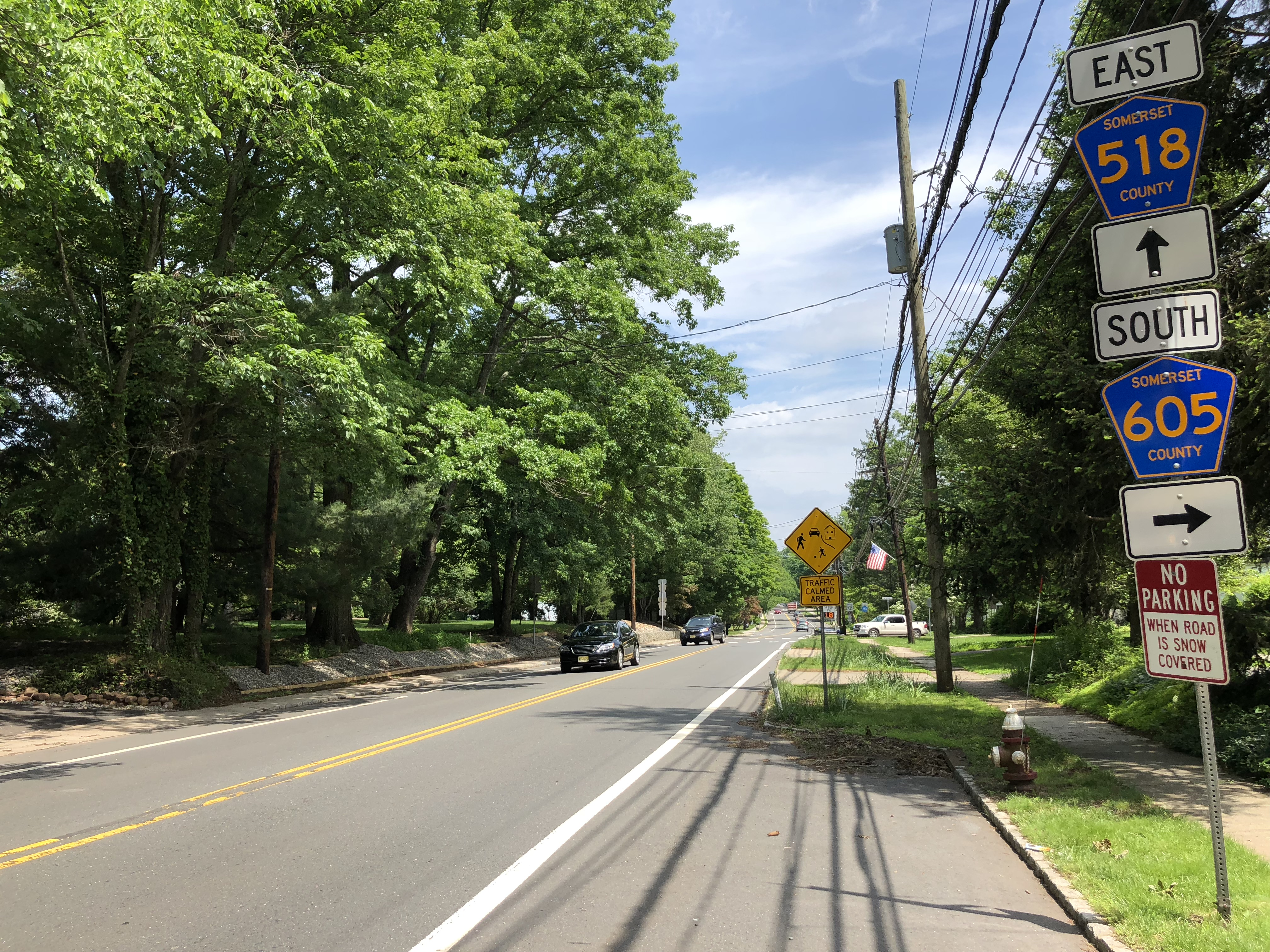 View east along Somerset County Route 518 (Washington Street) just west of Somerset County Route 605 (Crescent Avenue) in Rocky Hill, Somerset County, New Jersey